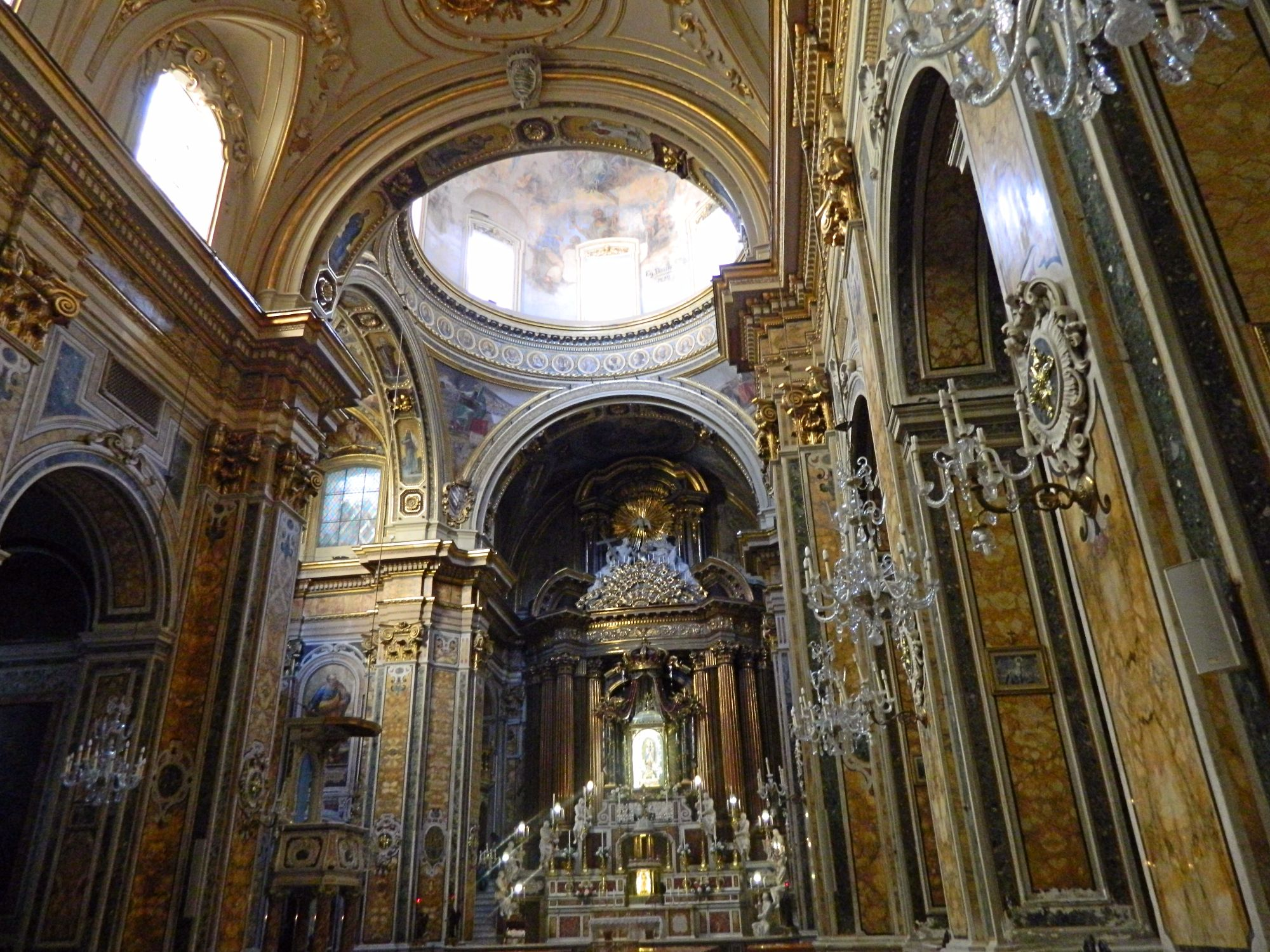 Basilica santuario del Gesù Vecchio dell'Immacolata di Don Placido - Interno